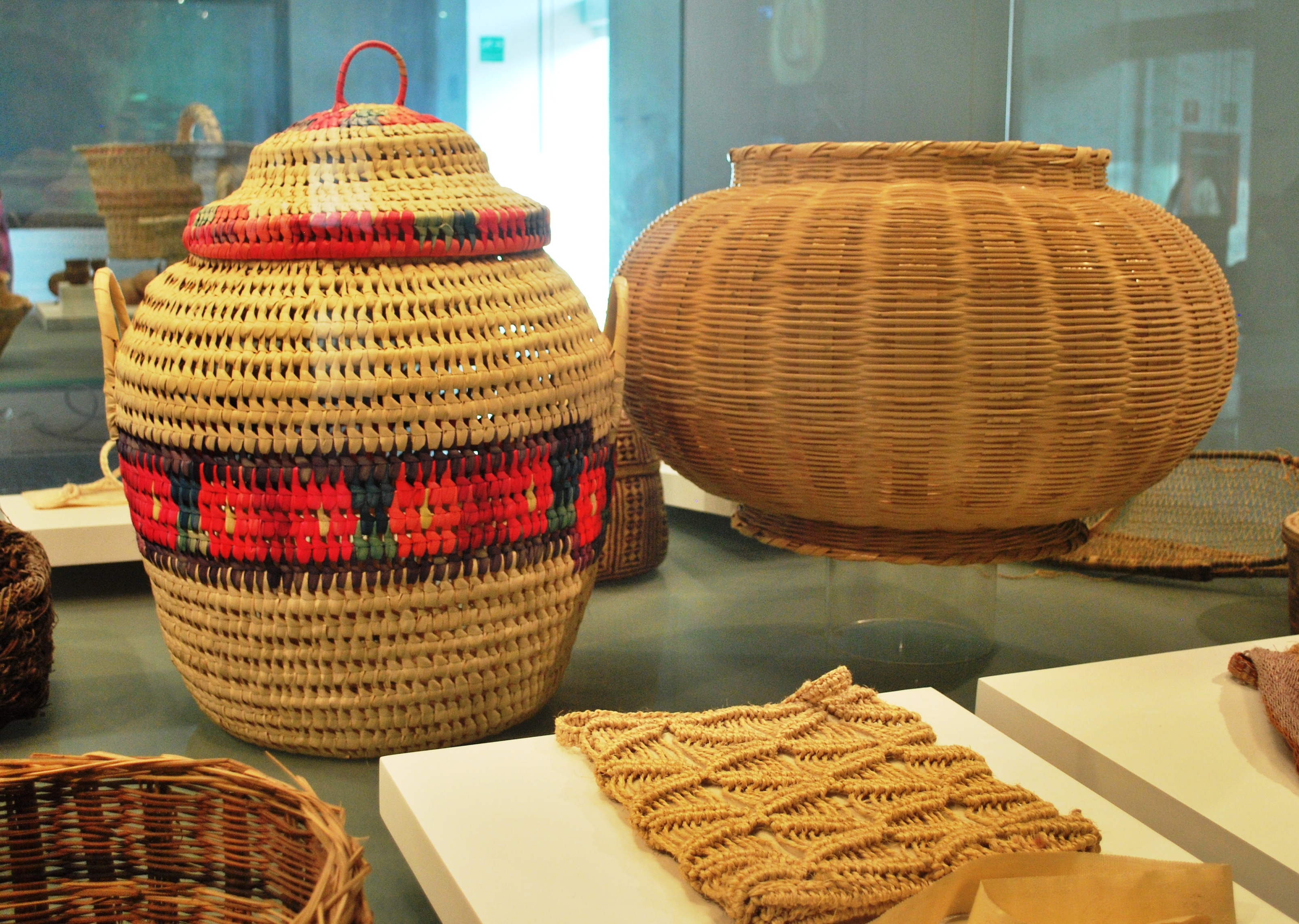 Basket display at the Museum of Artes Populares in Mexico City